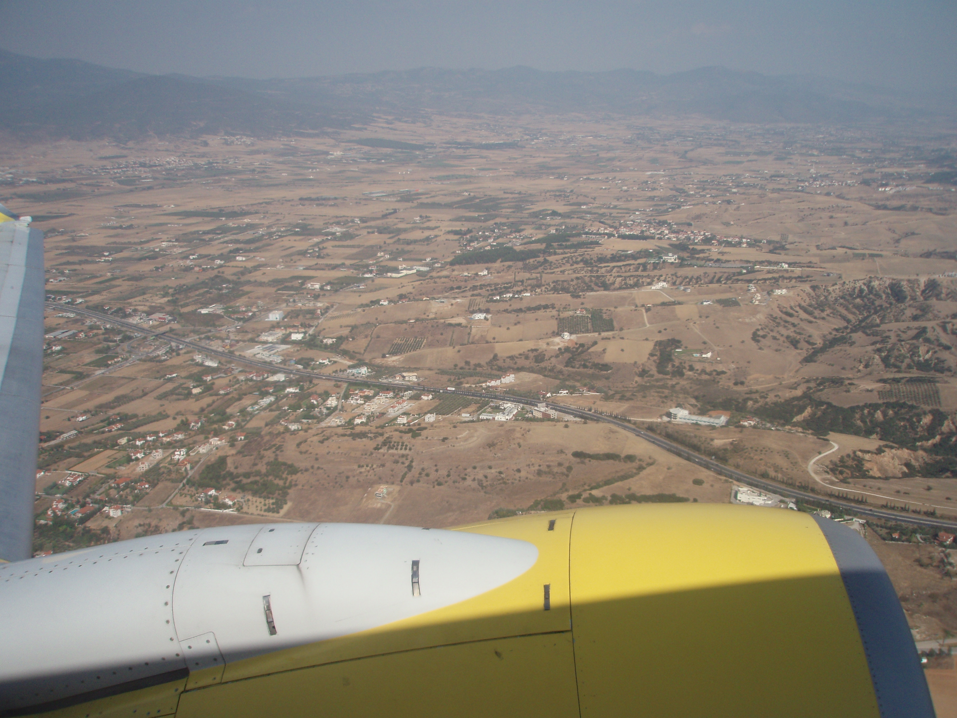 National Road 67, Greece. Section Thessaloniki-Nea Kallikratia and vice versa. Ascent/descent to Chalkidki is shown from air (starting airplane from Thessaloniki airport).